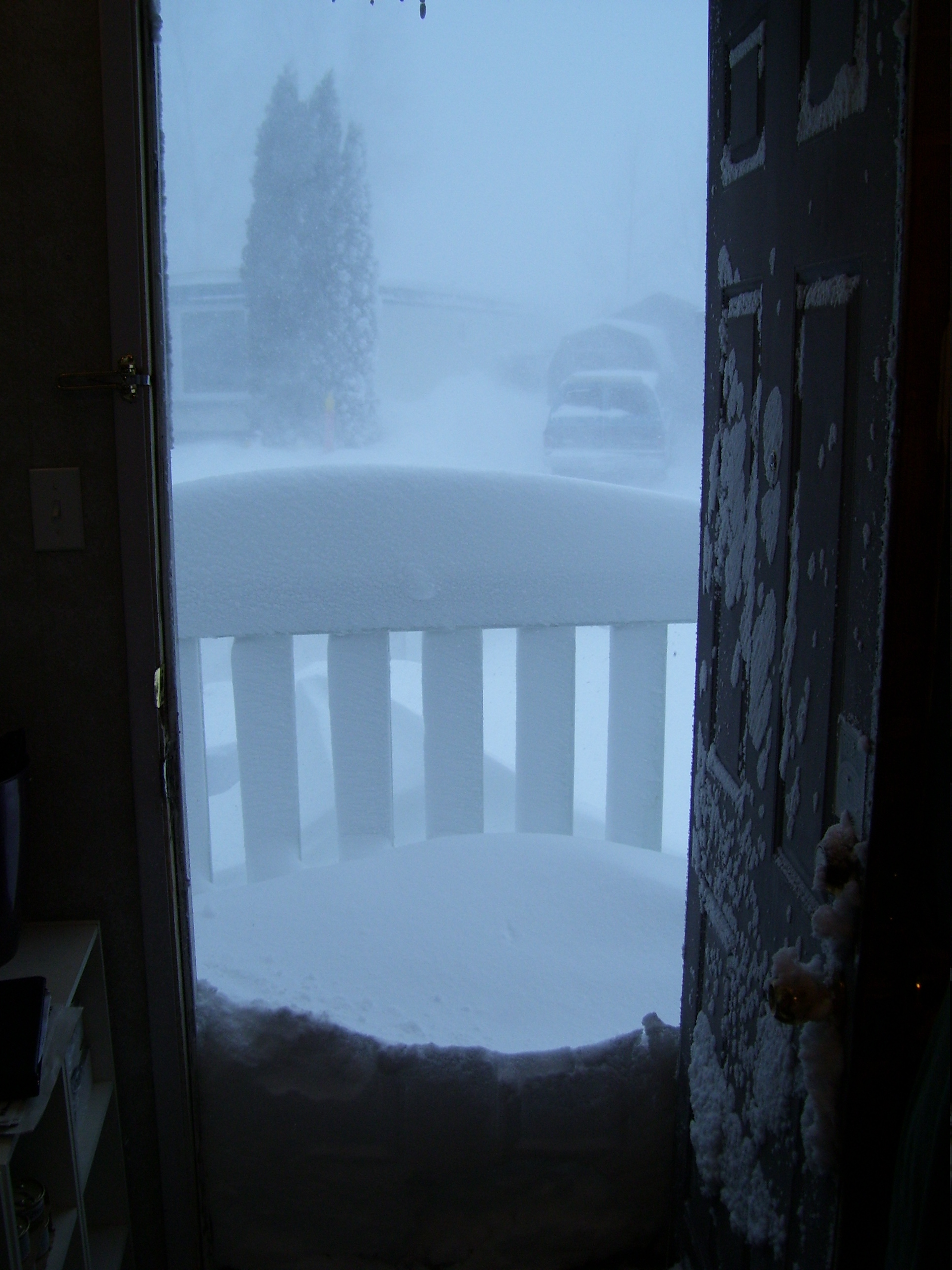 View through my front door during the blizzard.